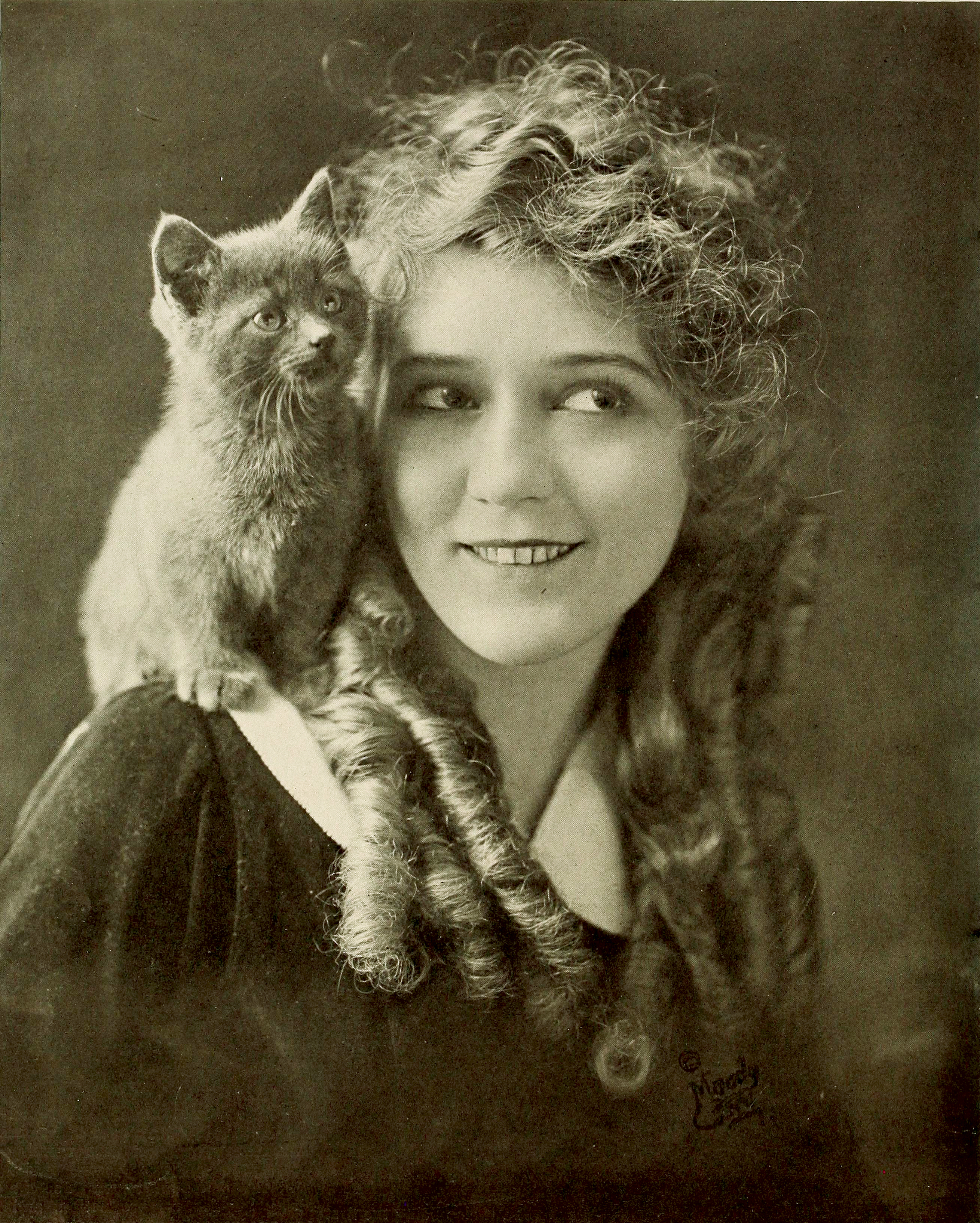 Mary Pickford, The Photo-Play Journal, June 1916